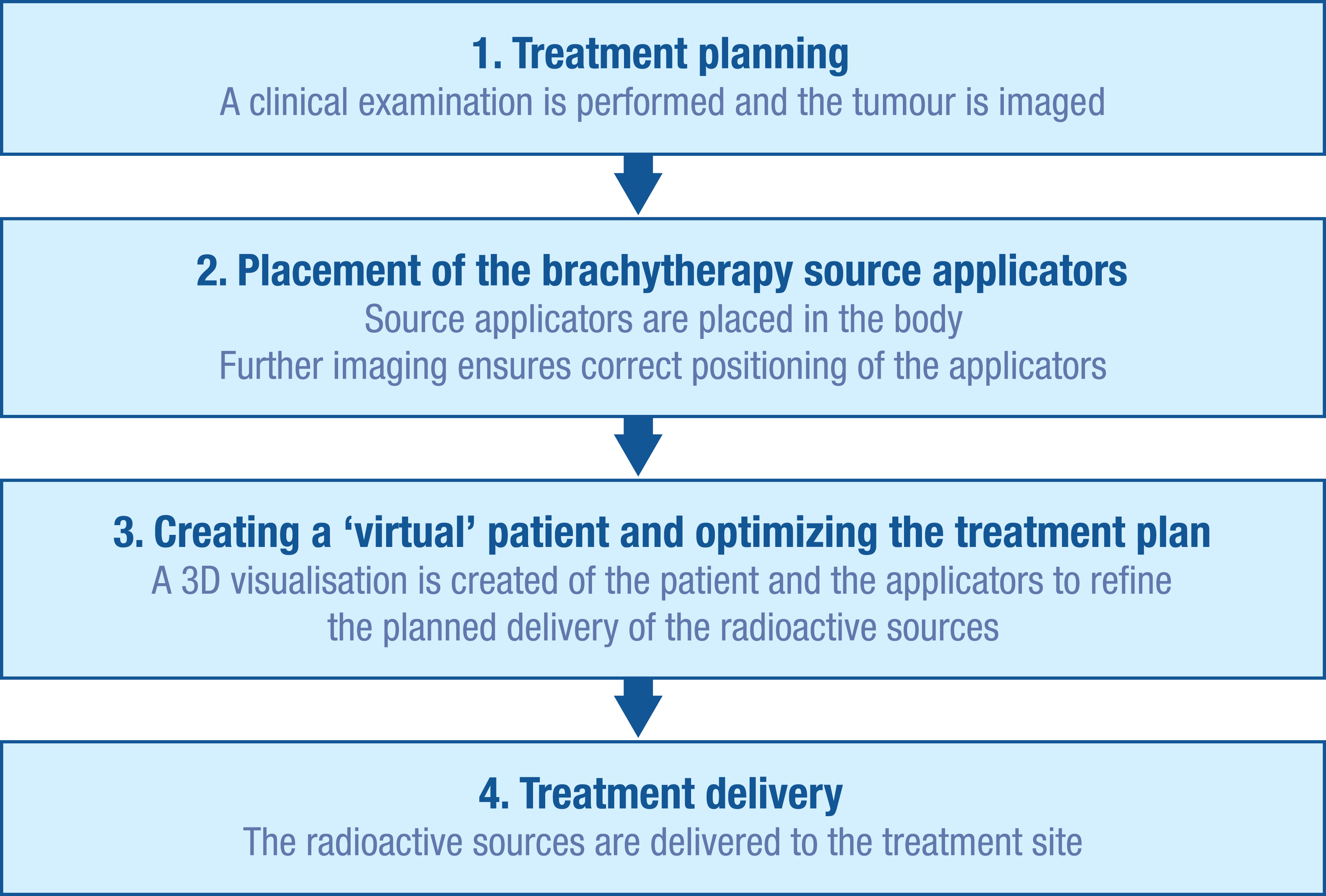 Brachytherapy procedure flow